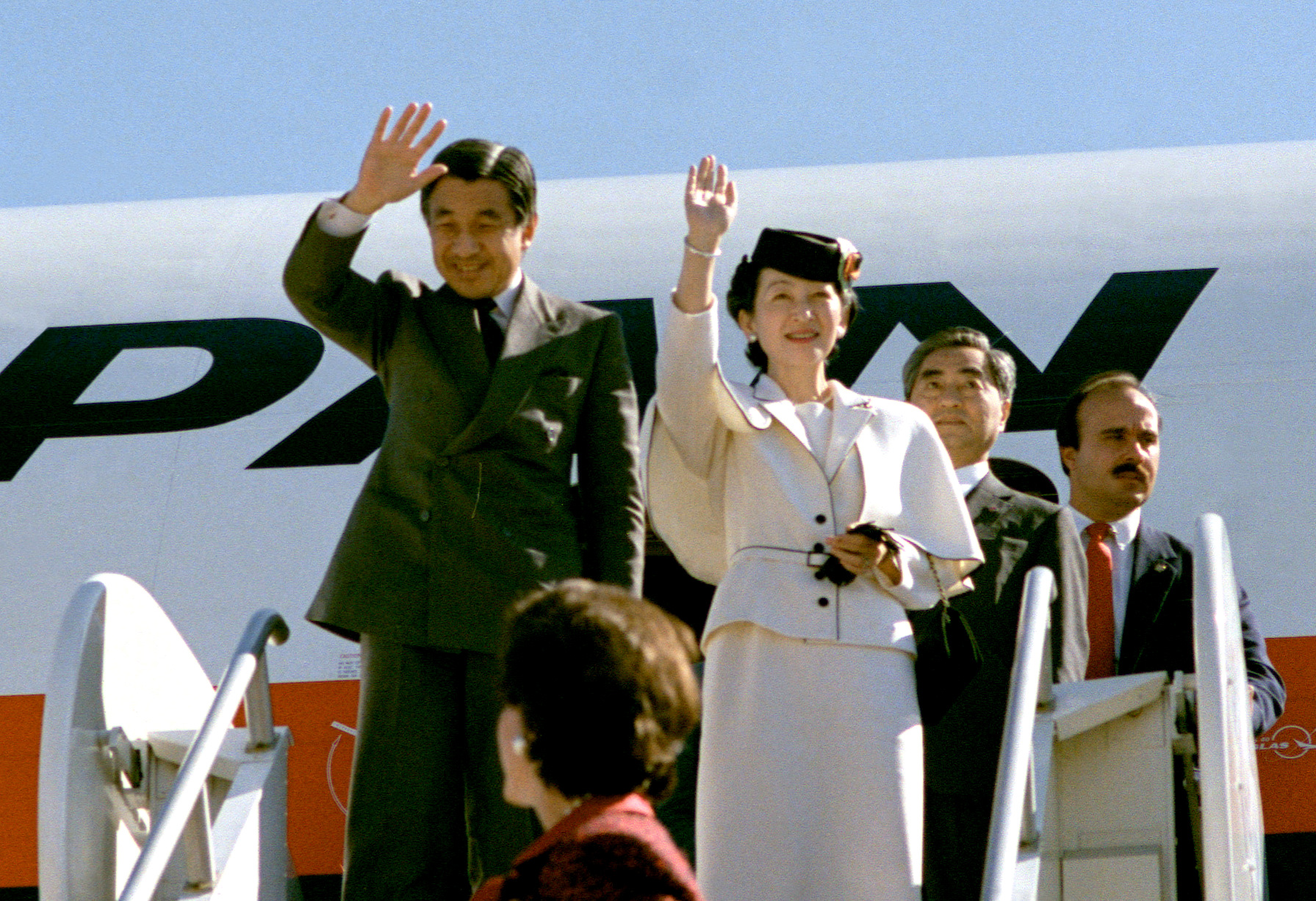 Crowned Prince Akihito and Princess Michiko of Japan disembark from their plane upon arrival for a state visit. Location: ANDREWS AIR FORCE BASE (original text)